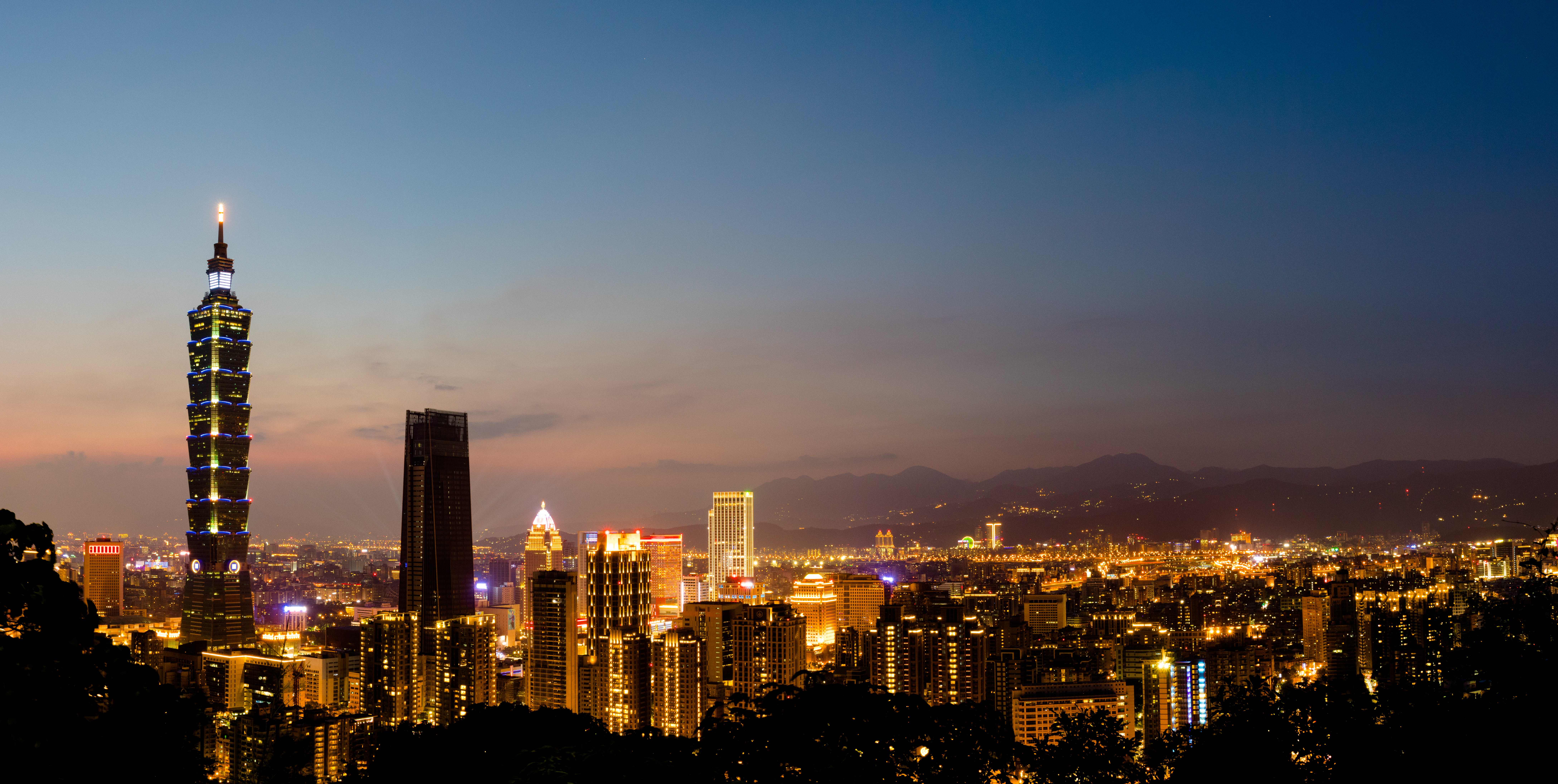 Skyline of Taipei, Taiwan at sunset in August 2017